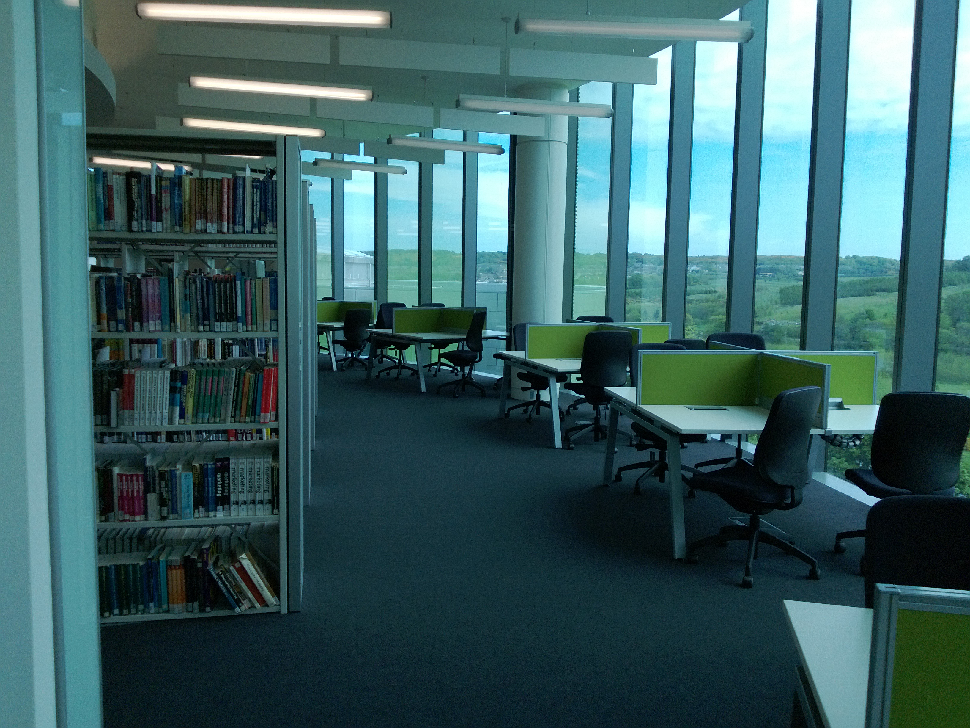 View of university library at The Robert Gordon University, Aberdeen. Study tables and bookshelves visible.